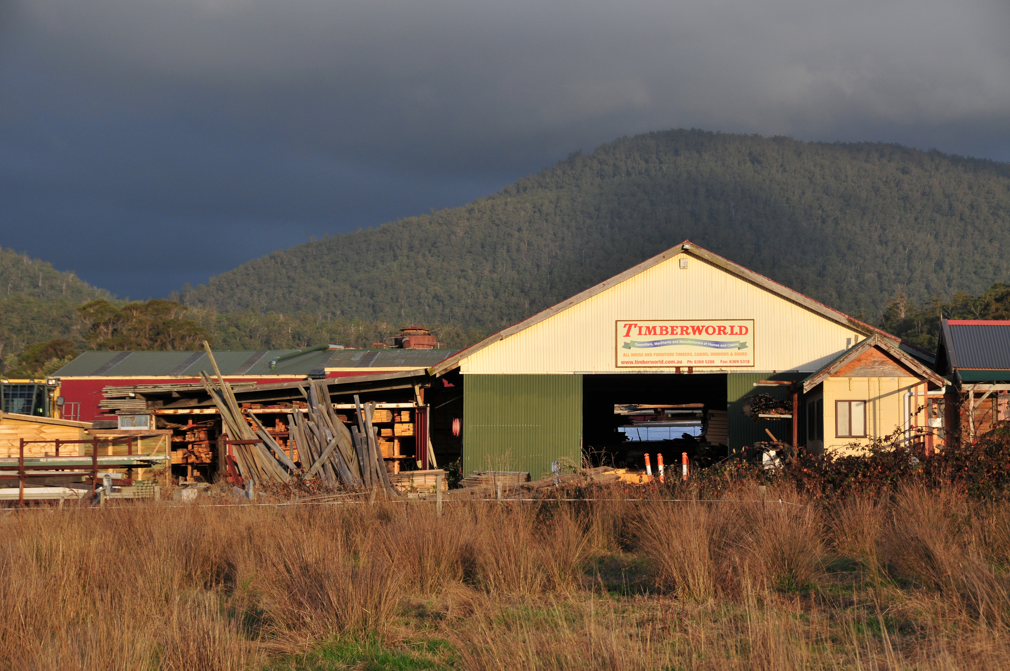 Main building of the sawmill and prefabricated home building company, Timberworld. In Meander Tasmania